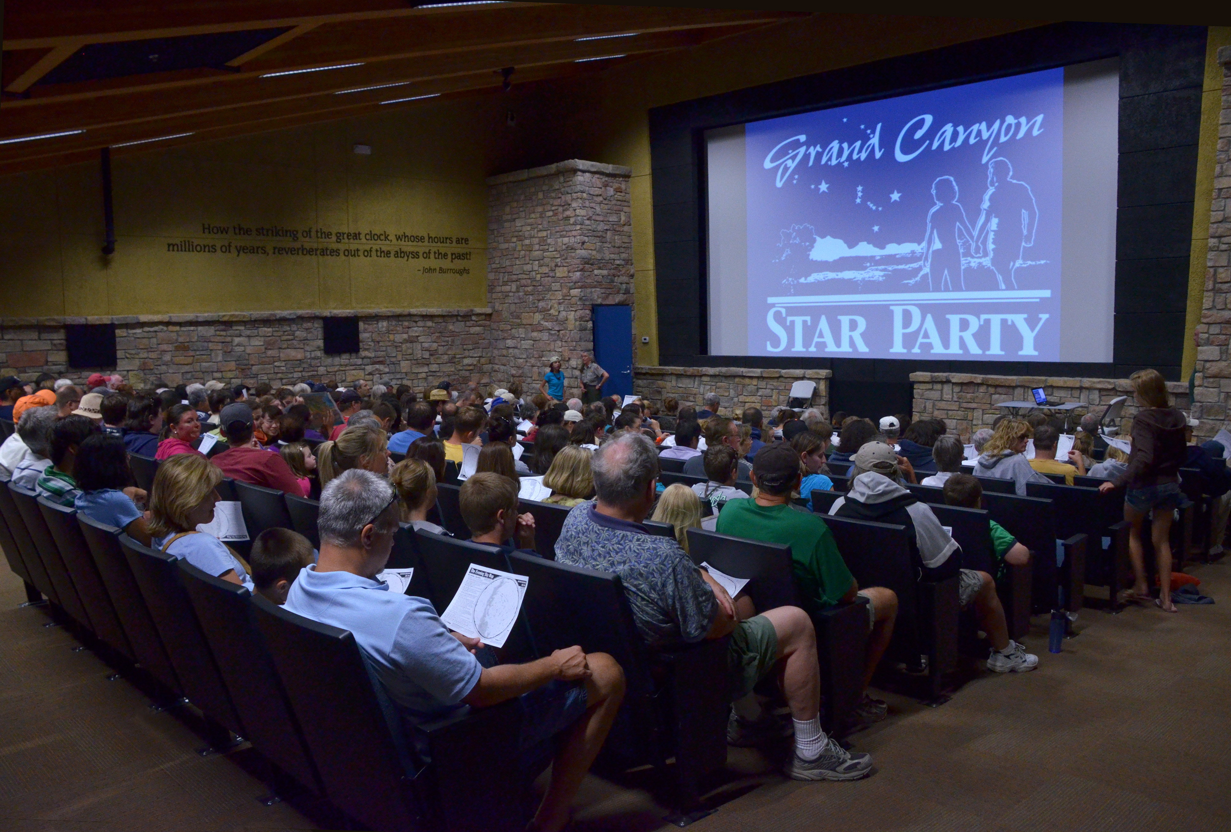 Grand Canyon Visitor Center Theater